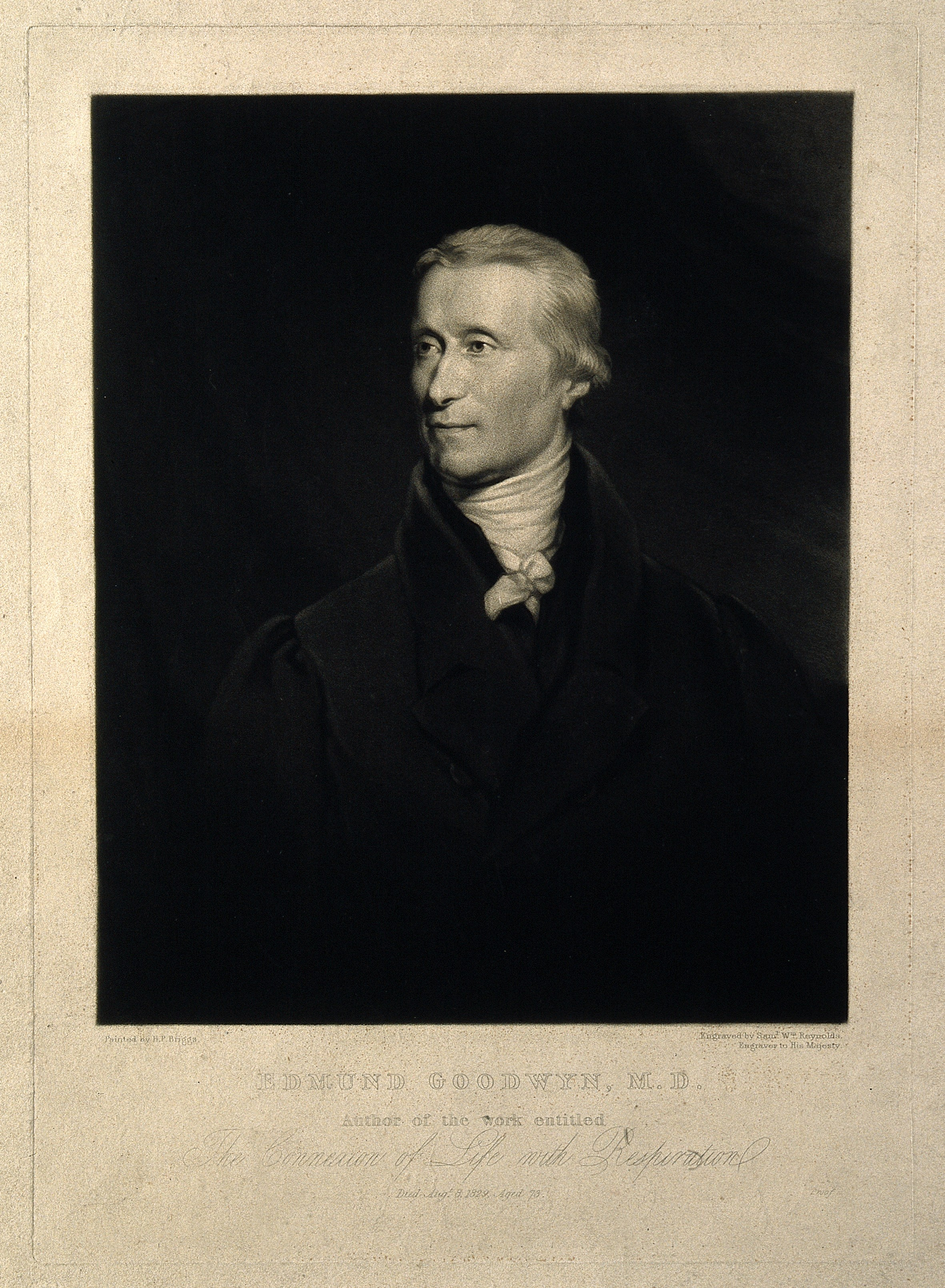 Edmund Goodwyn. Mezzotint by S. W. Reynolds after H. P. Briggs. Iconographic Collections Keywords: portrait prints; Edmund Goodwyn; mezzotints; Samuel William Reynolds